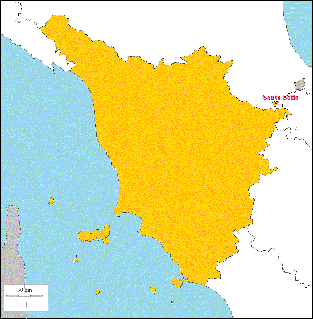 Position of Santa Sofia Marecchia, exclave and hamlet of Badia Tedalda (AR)